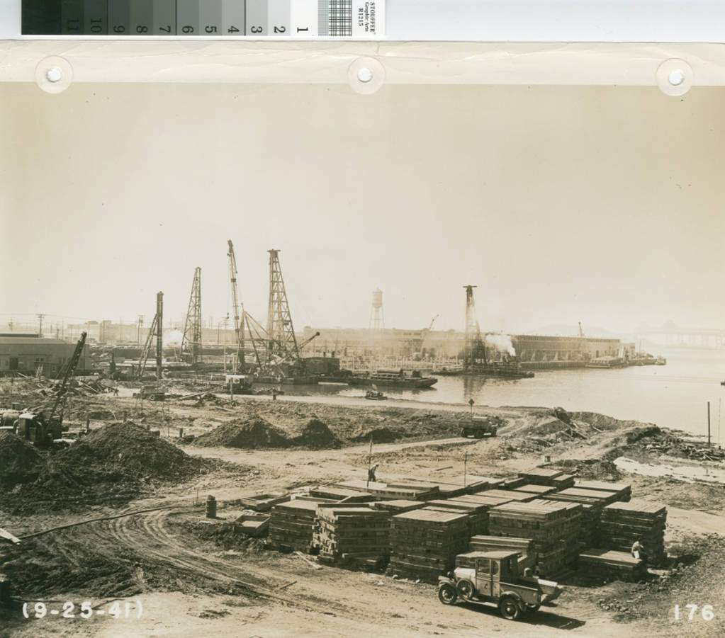 The image shows the Oakland Naval Supply Depot under construction at the Oakland Outer Harbor.